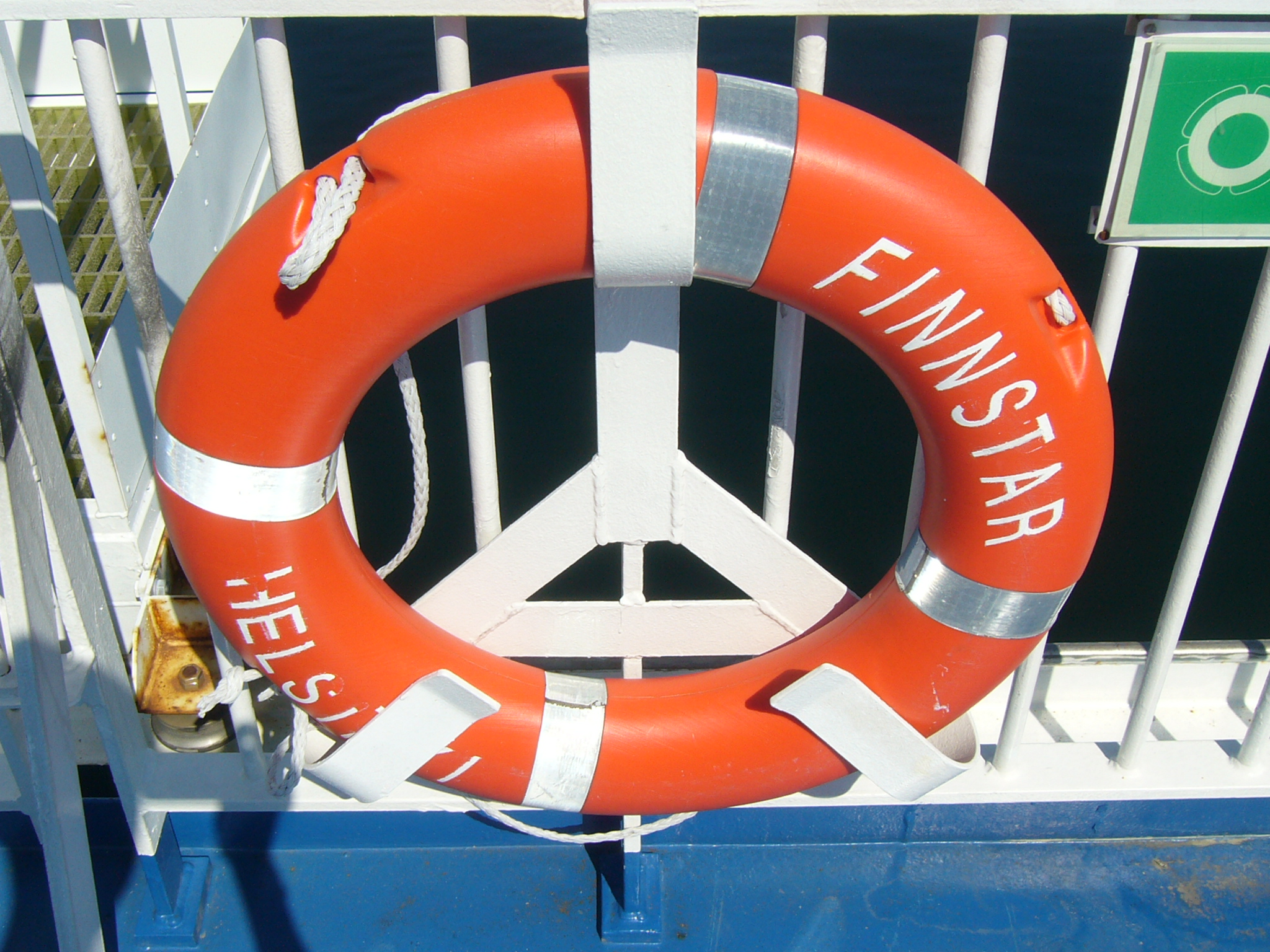 One of the Finnish passenger cargo ship M/S Finnstar's lifebelts.